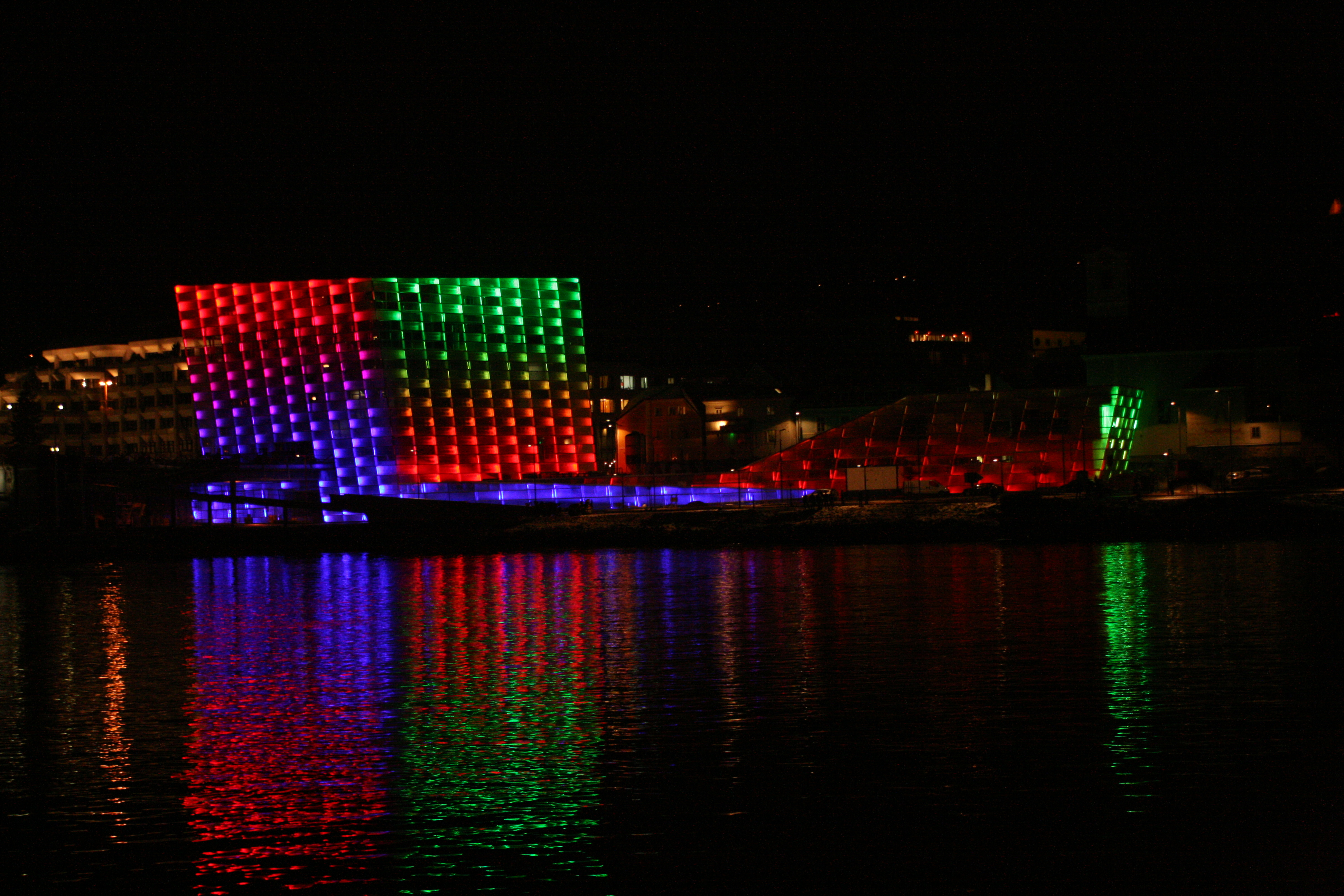 Picture from the first official test lighting of the new built AEC